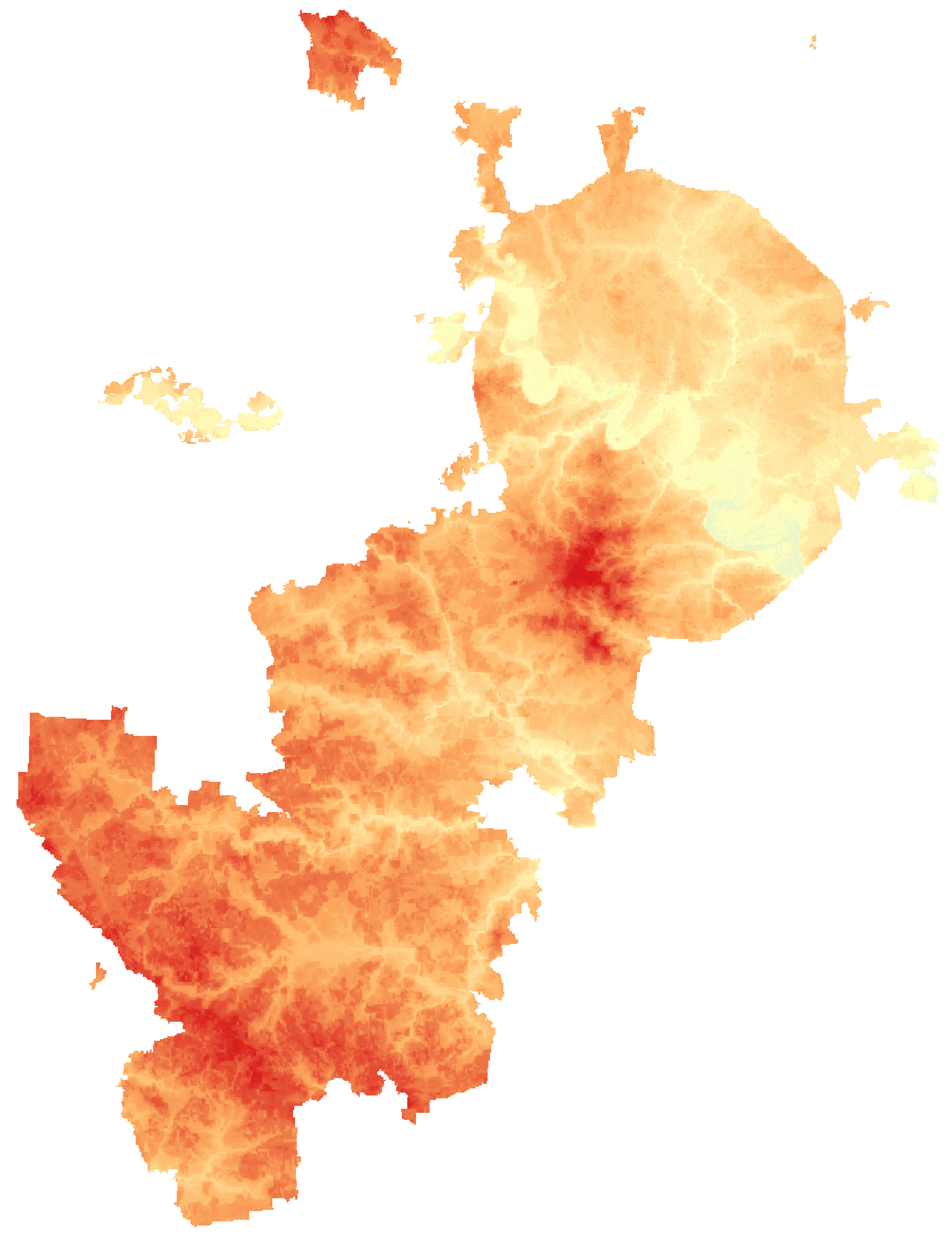 Relief map of Moscow. Data from "SRTM-1 (30m Mesh) Ver.3 2014".